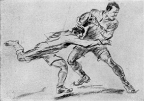 award winning drawing from 1928 Olympic art competitions